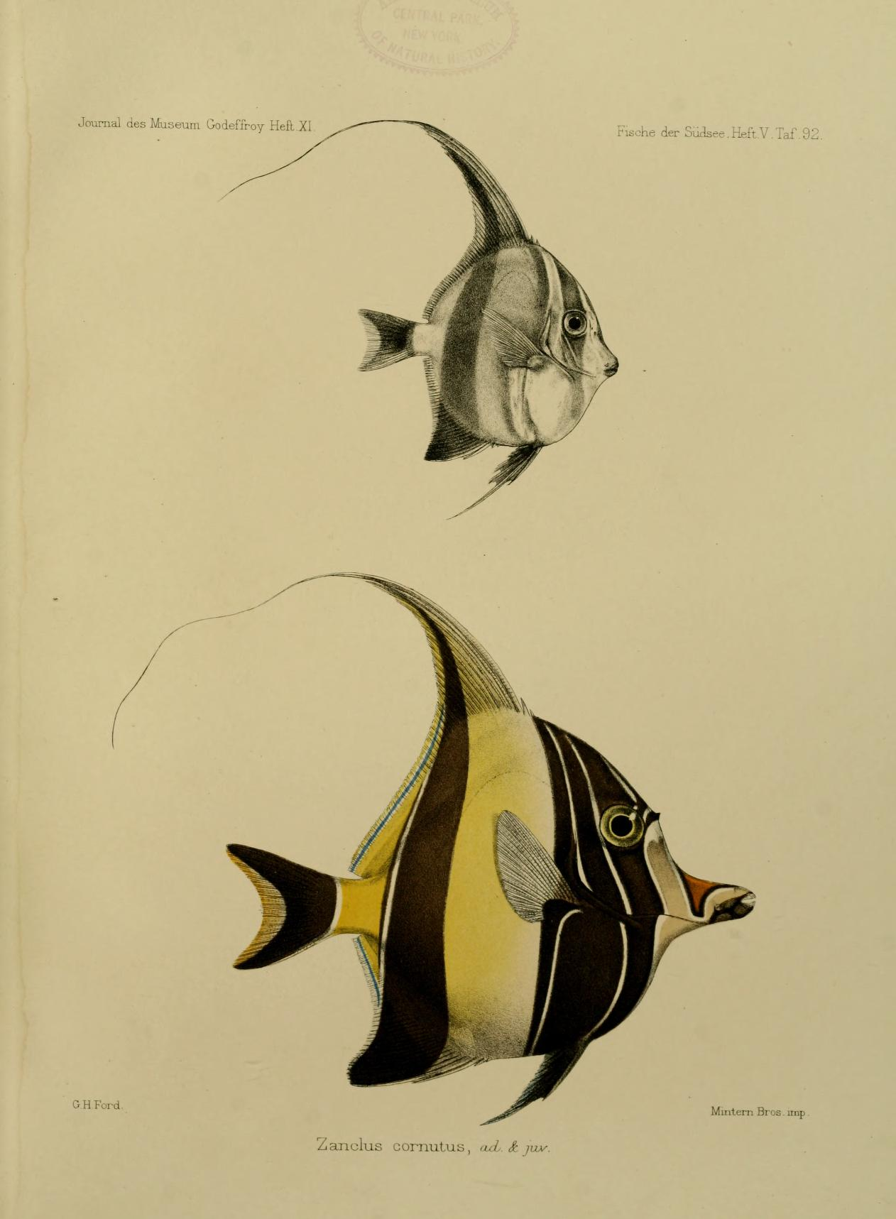 As file